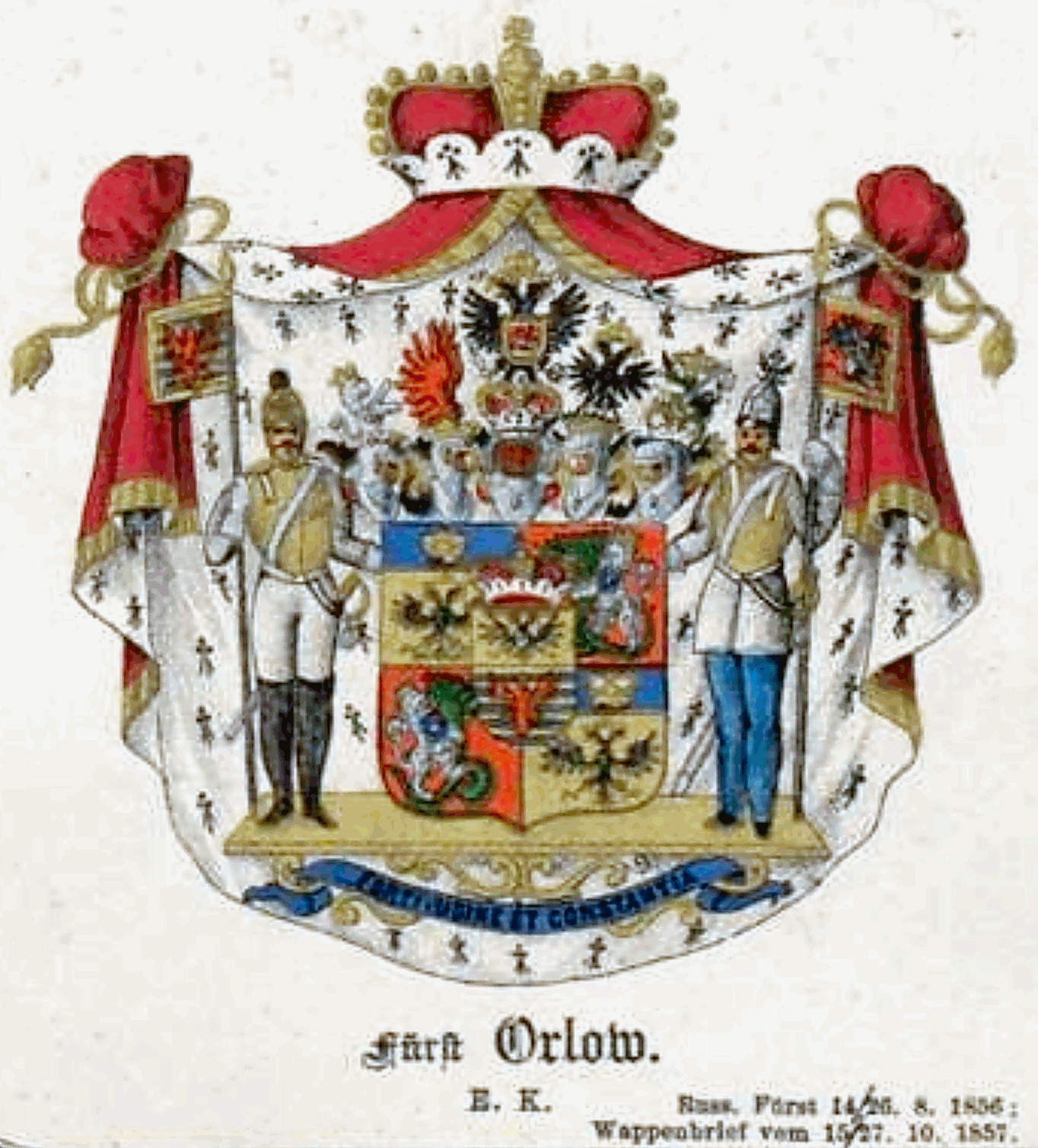 Coat of arms of fuerst Orlow